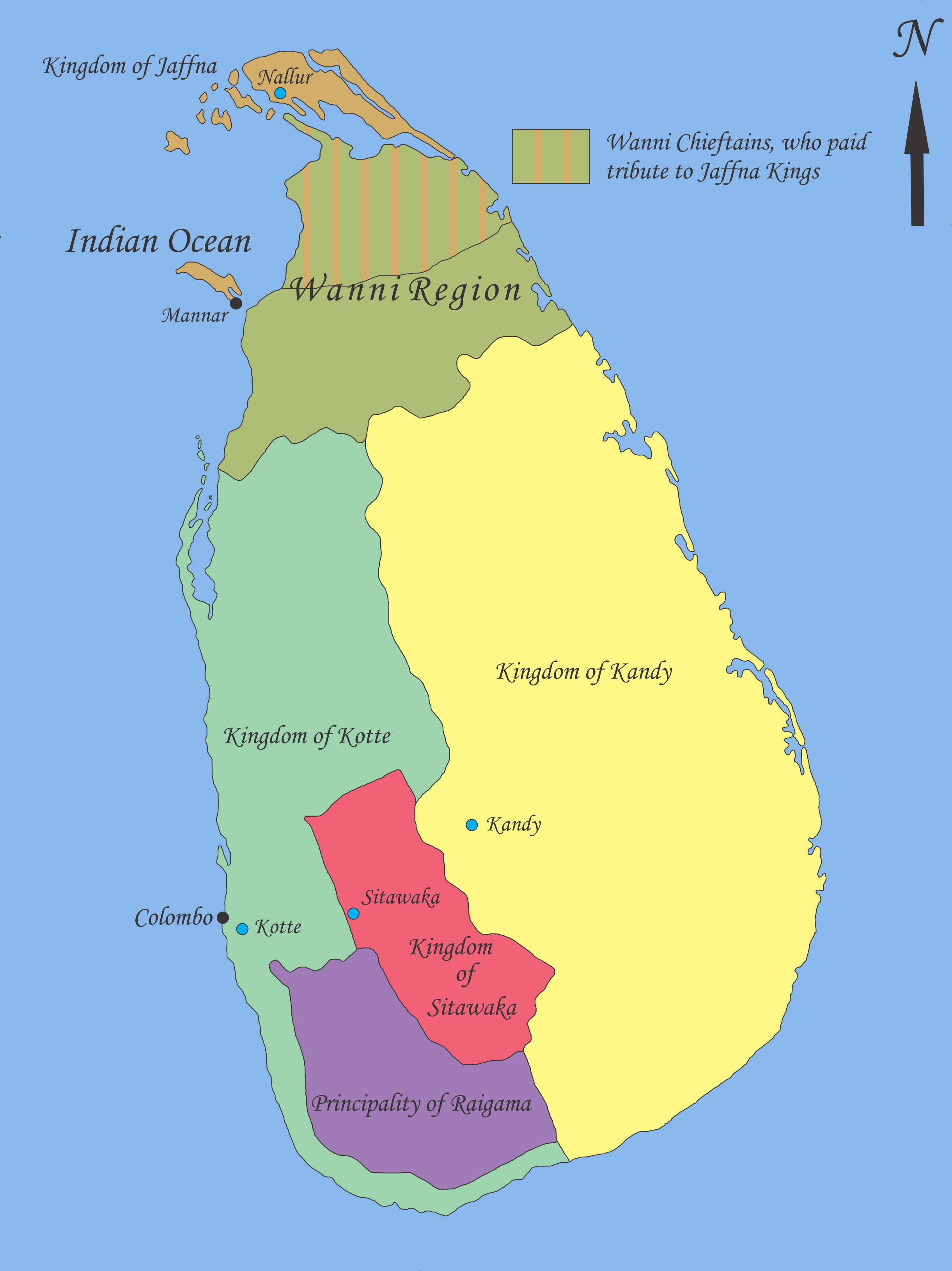 Map showing geopolitical situation in Sri Lanka in the early part of 16th century after the “Spoiling of Vijayabahu” in 1521. Map based on following sources; - “Year 8 History Text Book – Government Publication”, THE ARRIVAL OF THE PORTUGUESE IN SRI LANKA: p14, 06th September 2012. -Fernao de Queyroz. The temporal and spiritual conquest of Ceylon. AES reprint. New Delhi: Asian Educational Services; 1995. p 47-58 ISBN 81-206-0765-1 -Captain Joao Ribeiro. The historic Tragedy of the island of Ceilao. AES Reprint. New Delhi: Asian Educational Services; 1999. p5 ISBN 81-206-1334-1 -Phillipus Baldaeus. A True and Exact Description of the Great Island of Ceylon. English Translation by Pieter Brohier. The Ceylon Historical Journal – Published in Co-operation with the Ceylon Branch of Royal Asiatic Society. Volume III, No 1-4; July 1958 to April 1959. p 300-301 Following maps were used to identify limitations of areas and not for the map itself. -DE L'ISLE:G. - Carte de l'Isle de Ceylan. Published in Paris 1723. , 06 September 2012 - VALENTIJN,F. - Nieuwe Kaart van het Eyland Ceylon opgestelt door. Published in Amsterdam 1724